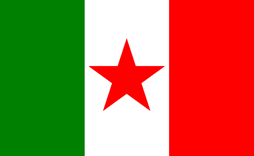 Flag of the Madhesi Jana Adhikar Forum, Nepal (based on [1]) .